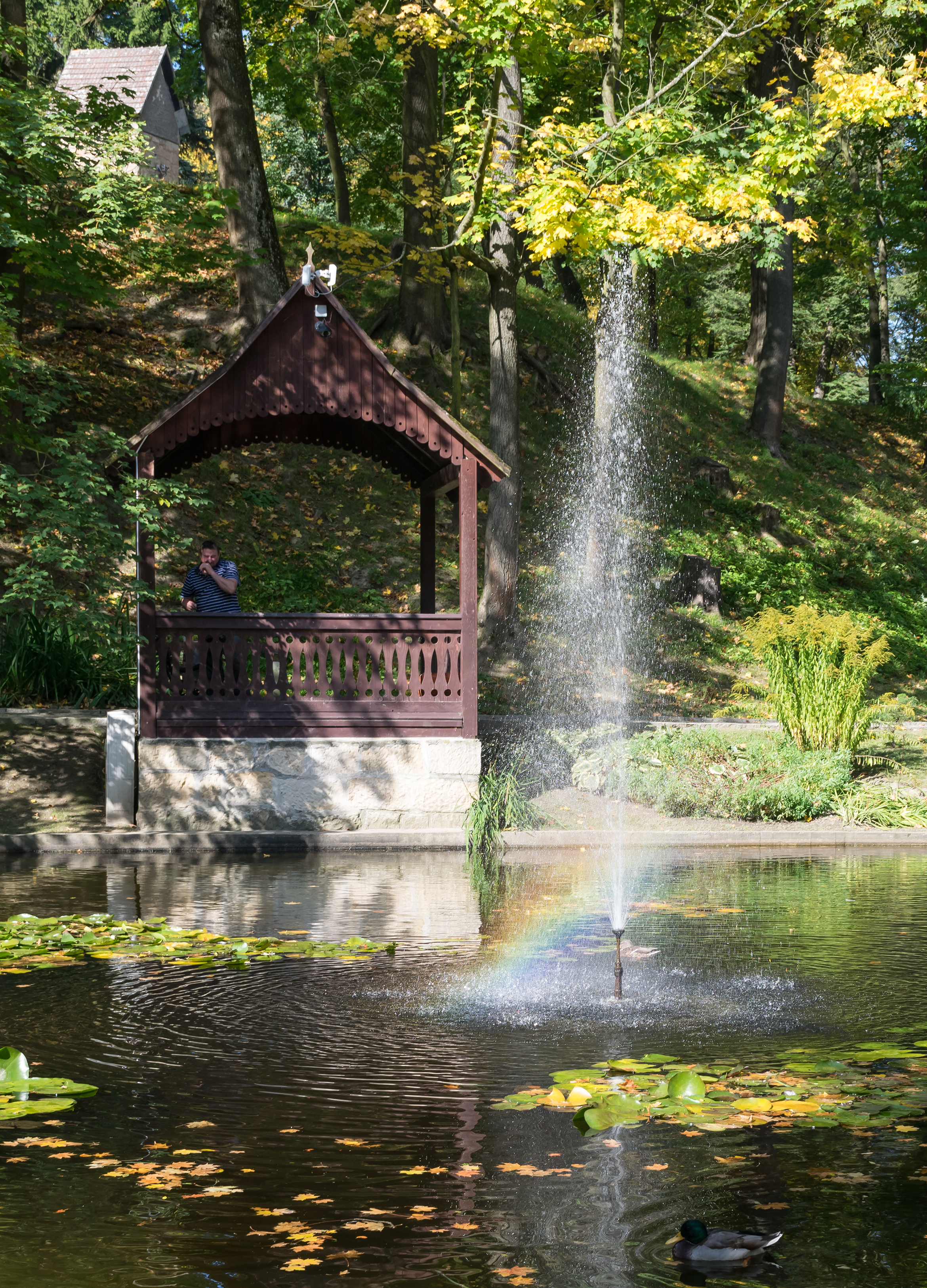 Spa Park in Długopole-Zdrój Wikidata has entry Q30046544 with data related to this item.